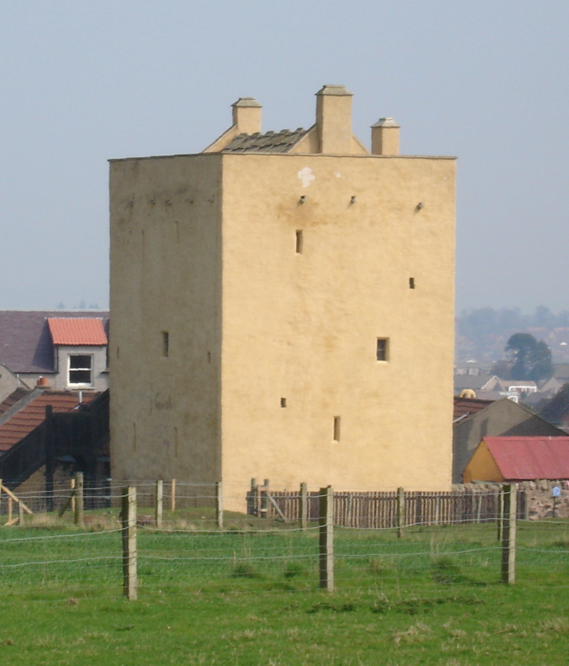 Liberton Tower, Edinburgh, taken by myself.